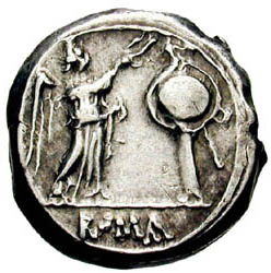 Victoriatus reverse. After 211 BC Victory standing right, crowning trophy, ROMA below, in relief. Image was taken from RSC 0009.jpg